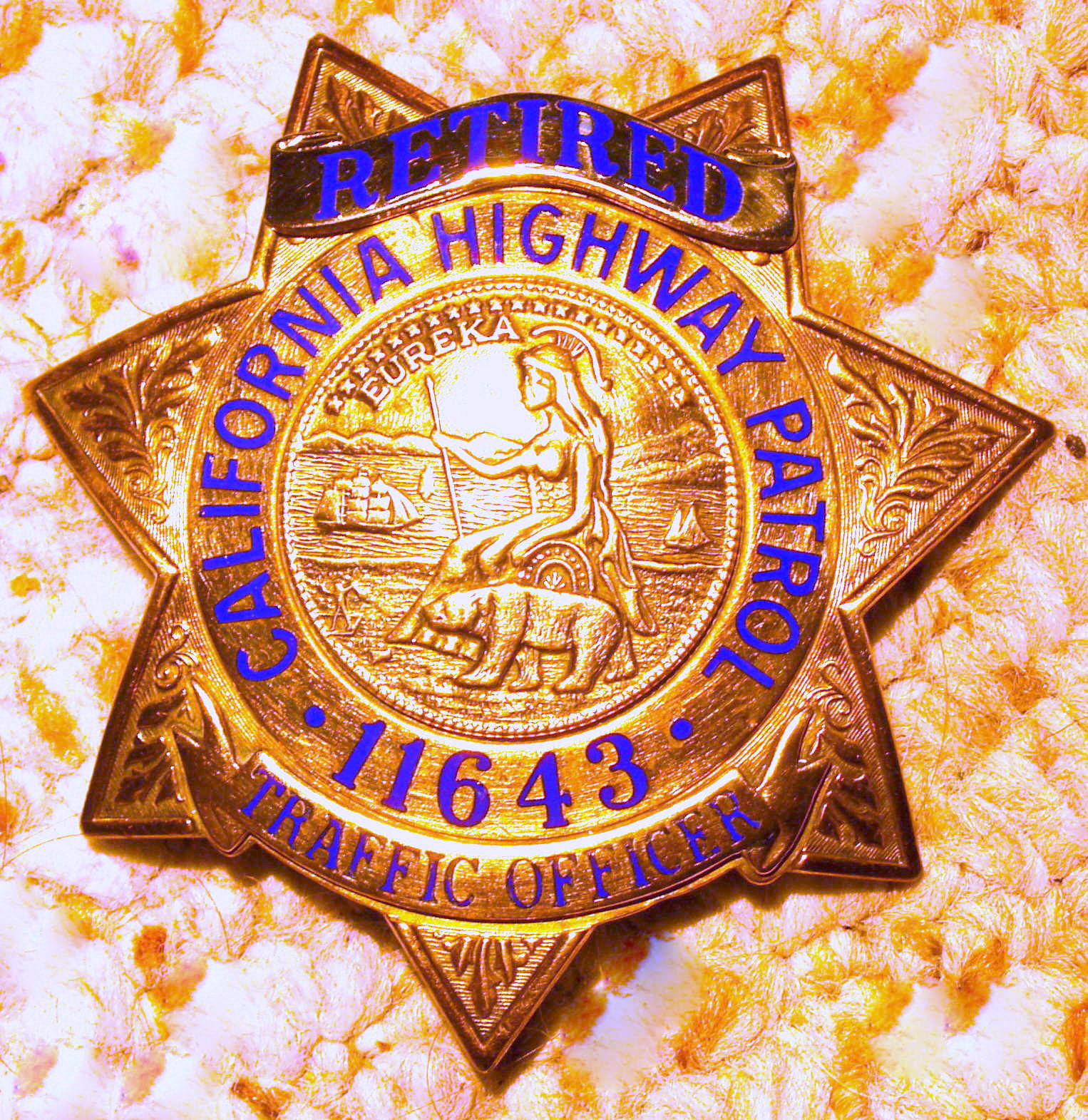 Photograph of a California Highway Patrol badge. Please acknowledge "Phil Konstantin" as the creator of this photograph.